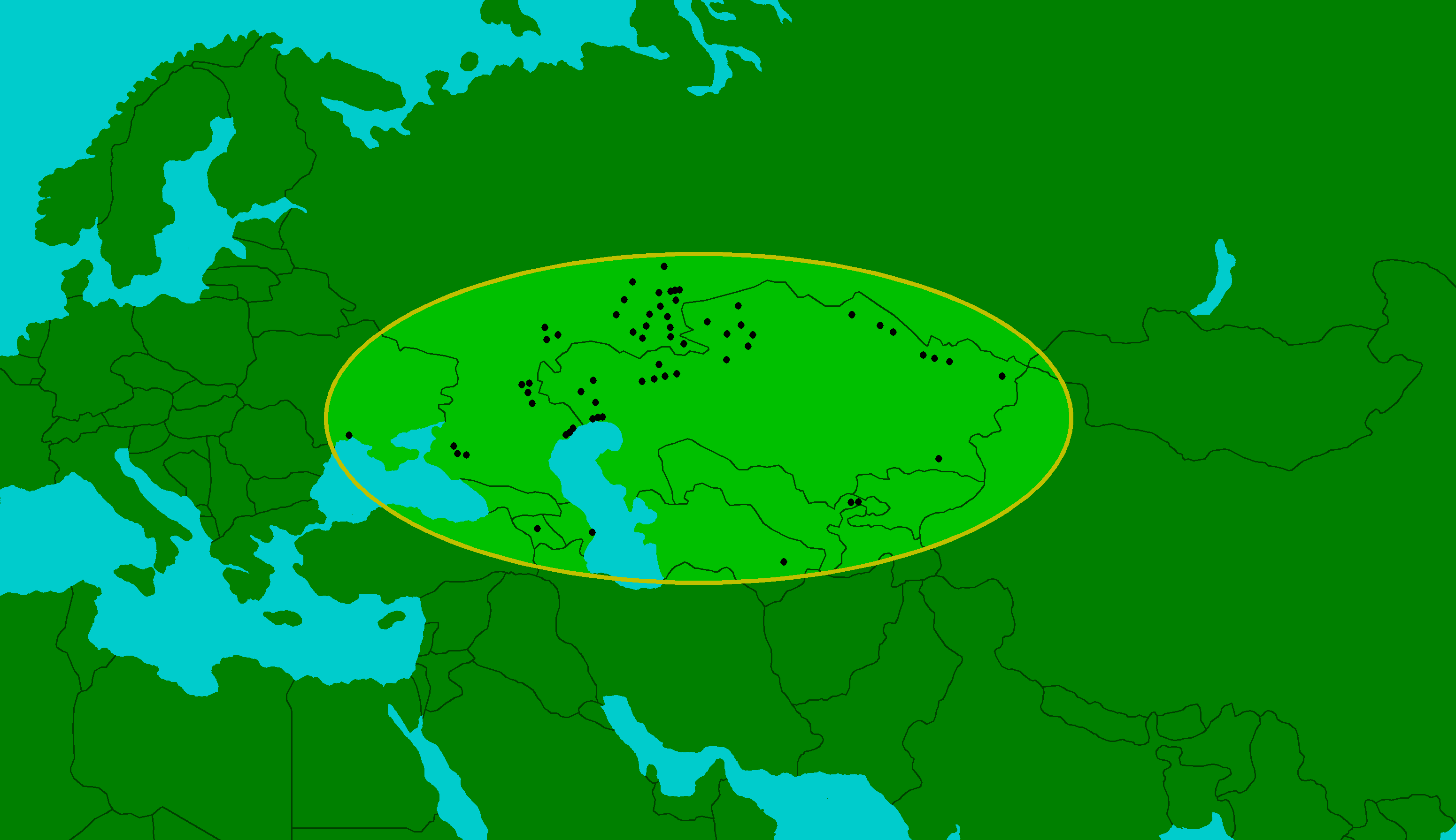 Distribution of E. sibiricum during the Middle and Upper Pleistocene.